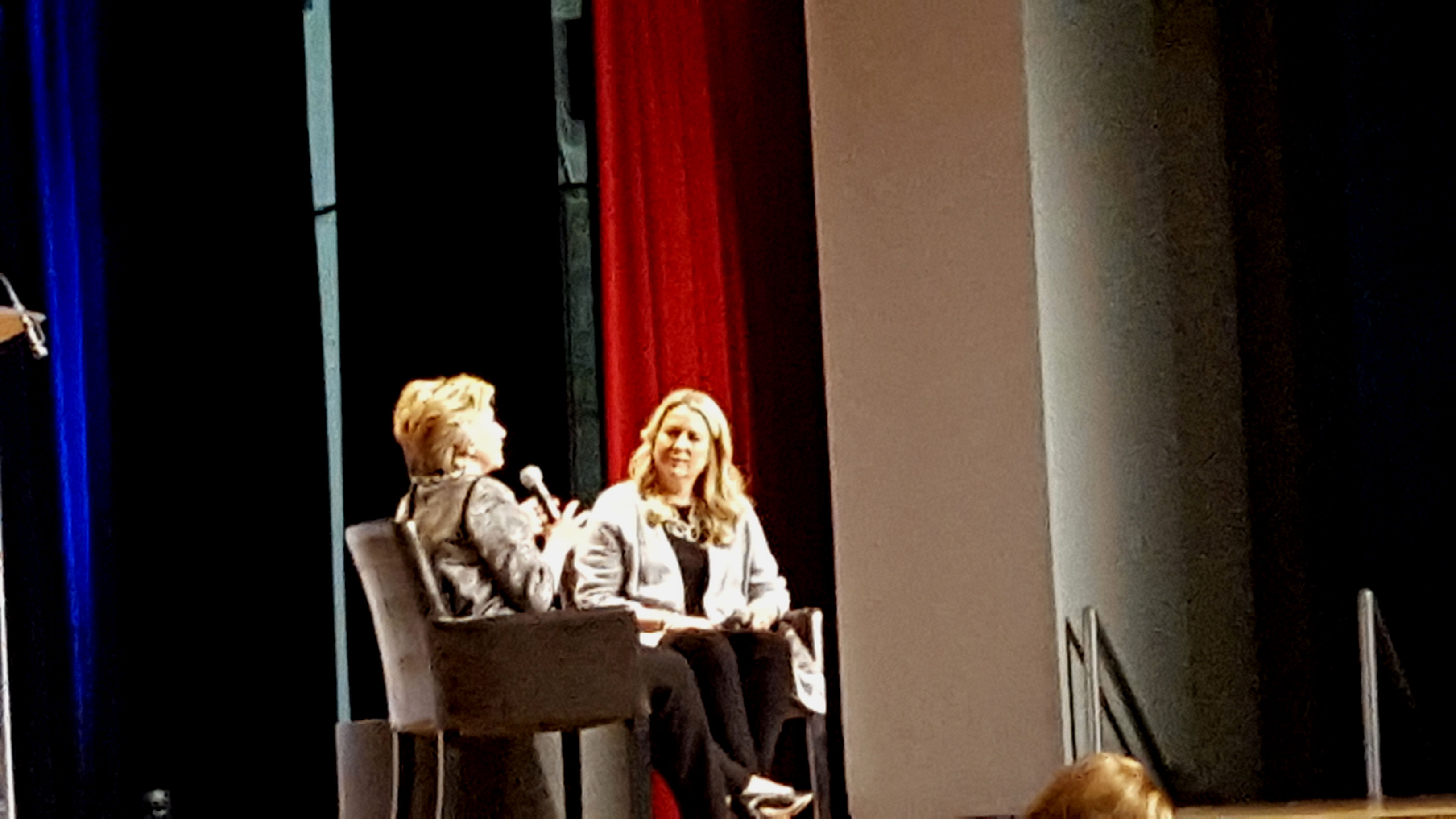 Hillary Rodham Clinton chats with Cheryl Strayed